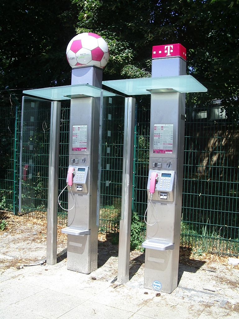 Deutsche Telekom phonebooth near Olympic Stadium (Berlin) in 2006, in a design of FIFA 2006.